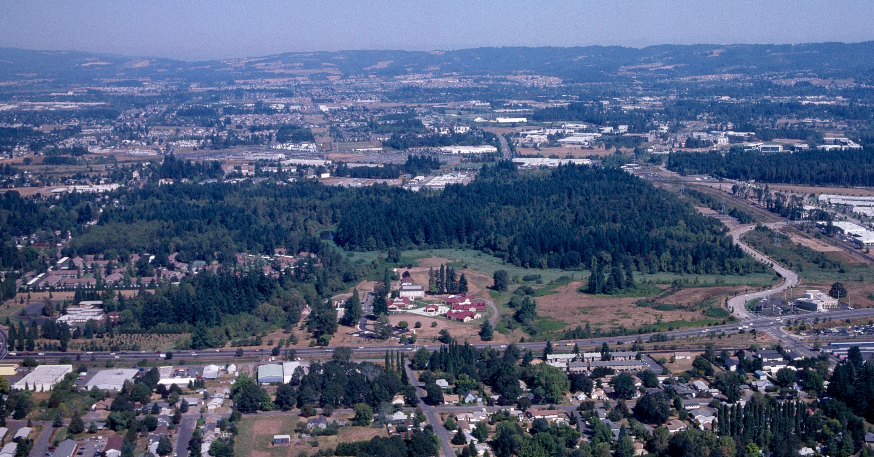 An aerial view of the Tualatin Hills Nature Park and vicinity in 1998, looking north. The Tualatin Valley Highway runs across the frame in the foreground.